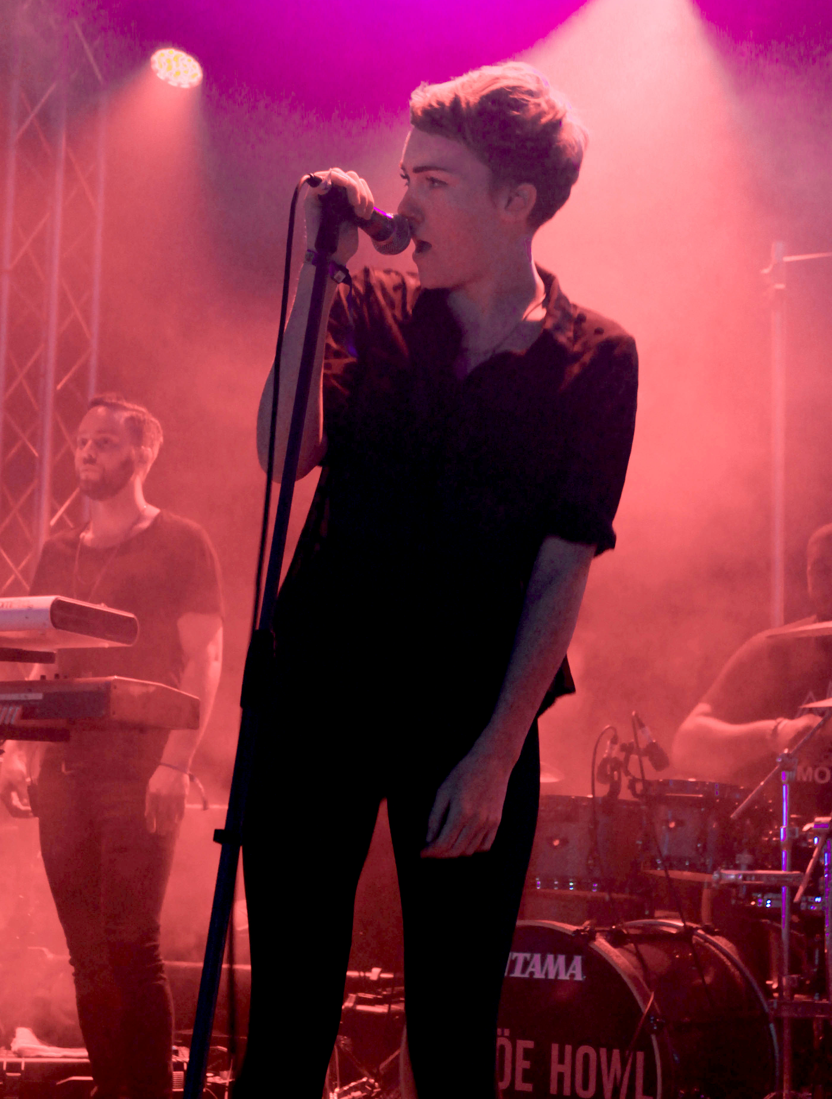 T in the park 2014 Balado